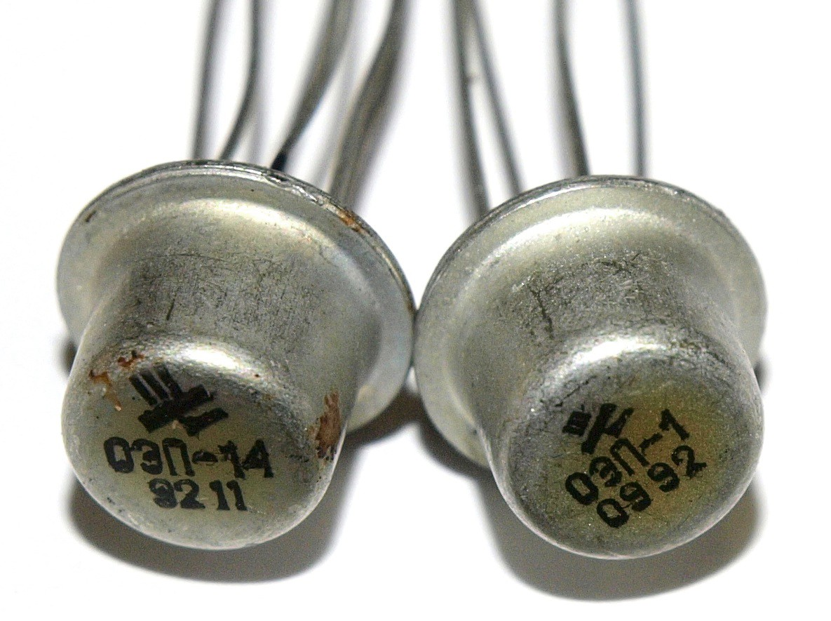 Russian OEP series opto-isolators. These are living fossils made in 1992: incandescent lamp light source, cadmium sulphide sensors. Slow and inefficient, they make superb volume controls, guitar filters and synth VCFs (as long as you don't need fast control response). Yellow tint on tops of the caps is lacquer stain, not rust. Manufacturer: Izmeritel Chernivtsi, Ukraine